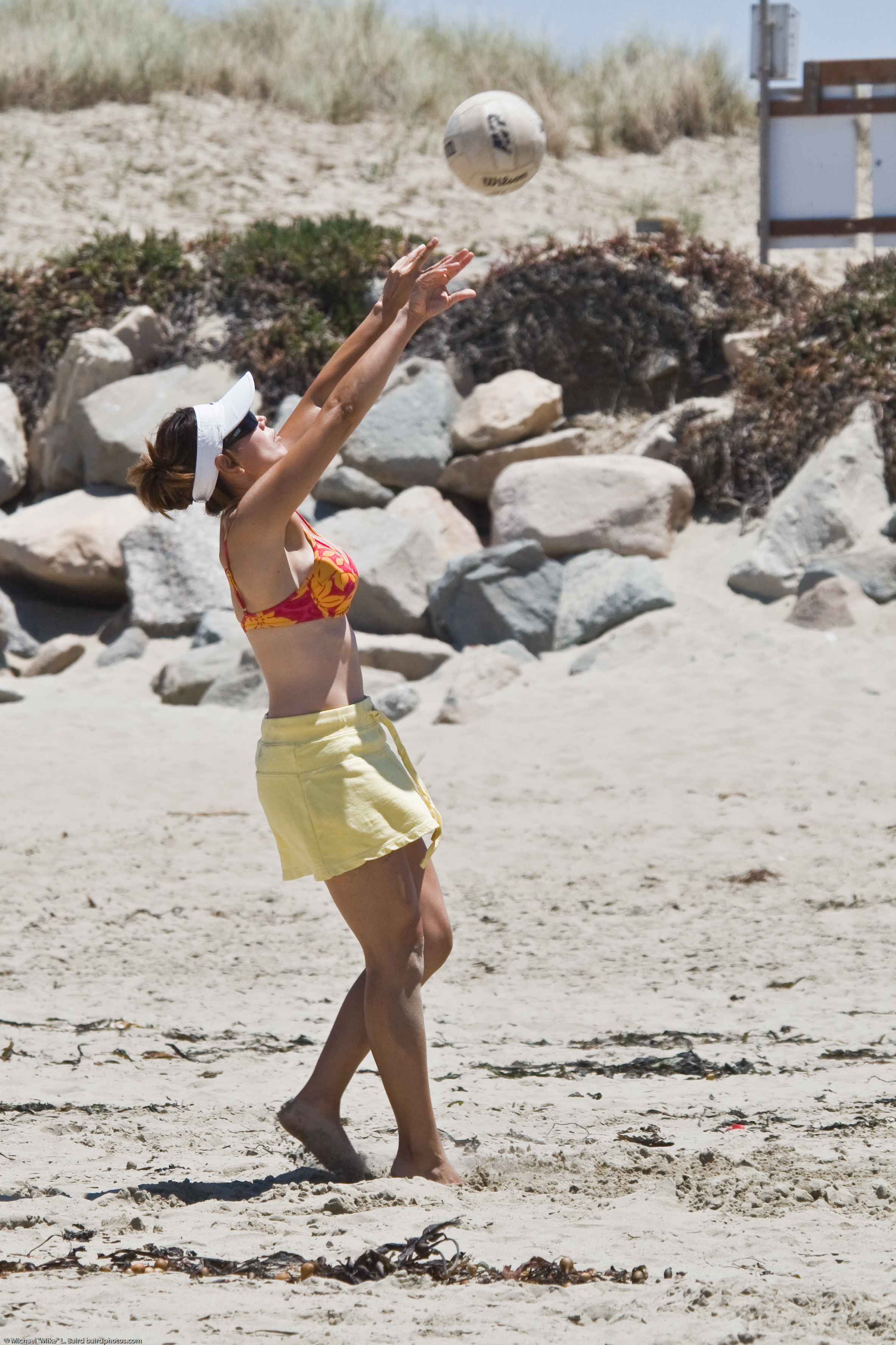 Woman setting a volleyball during a beach volleyball game. Photo by Michael "Mike" L. Baird 1D Mark III 100-400mm IS + 1.4X TE handheld (I should have brought my polarizer).